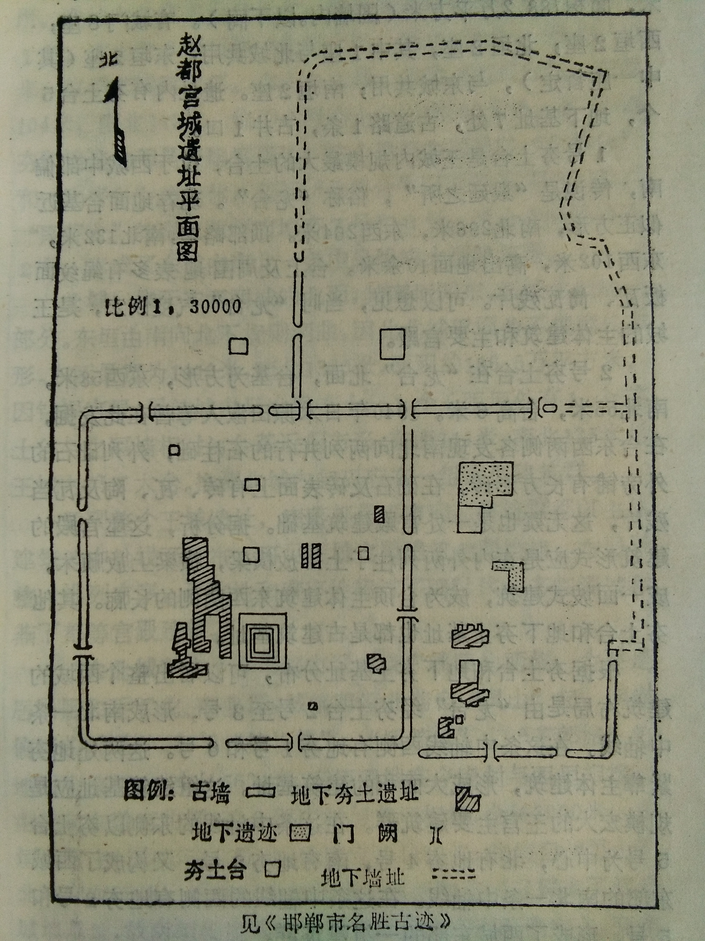 Palace of Zhao City site plan，selected from Hao Liang Zhen "Handan brief history", p. 47.